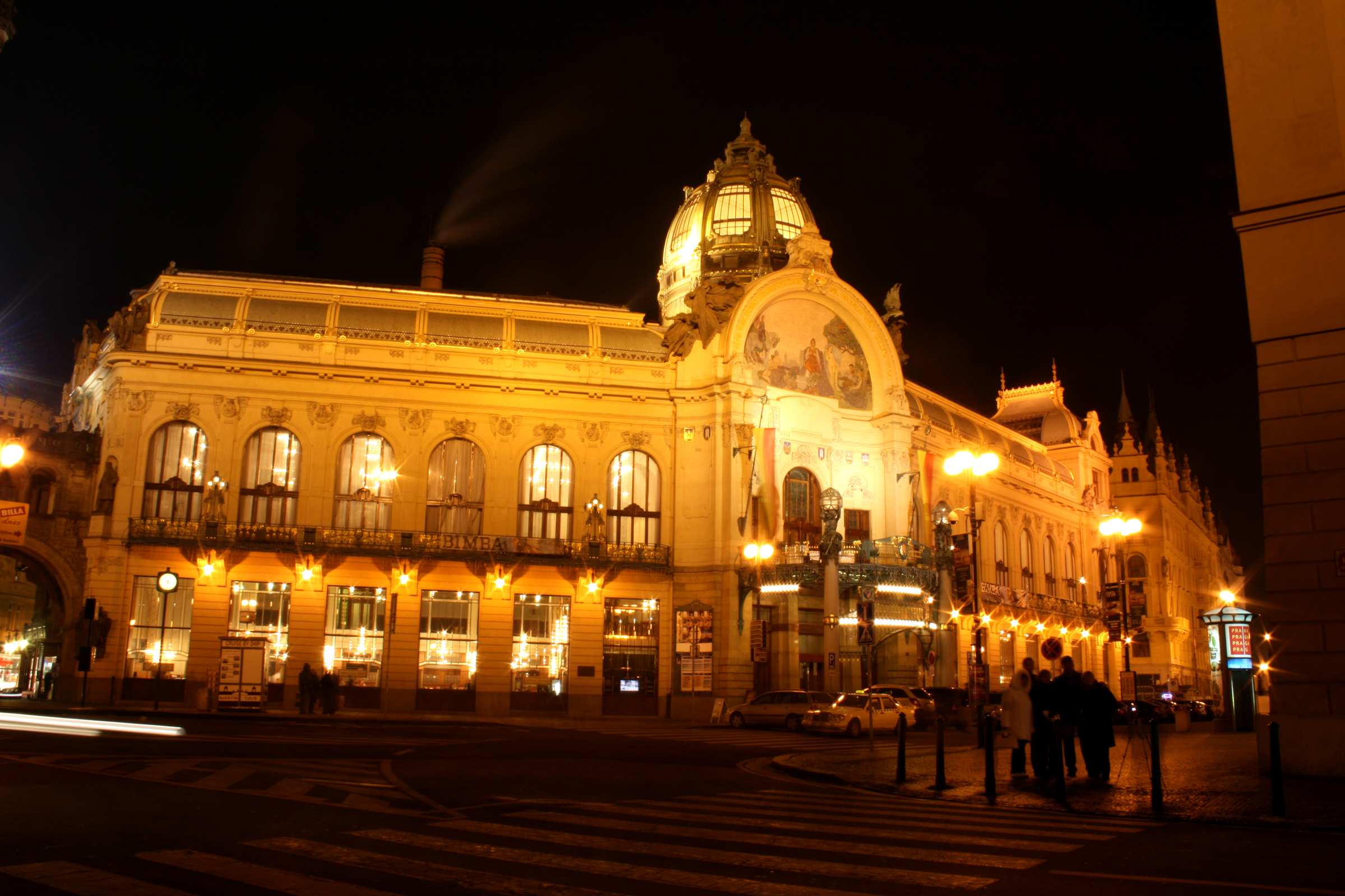 Night image of Municipal House in Old Town, Prague, Czech Republic